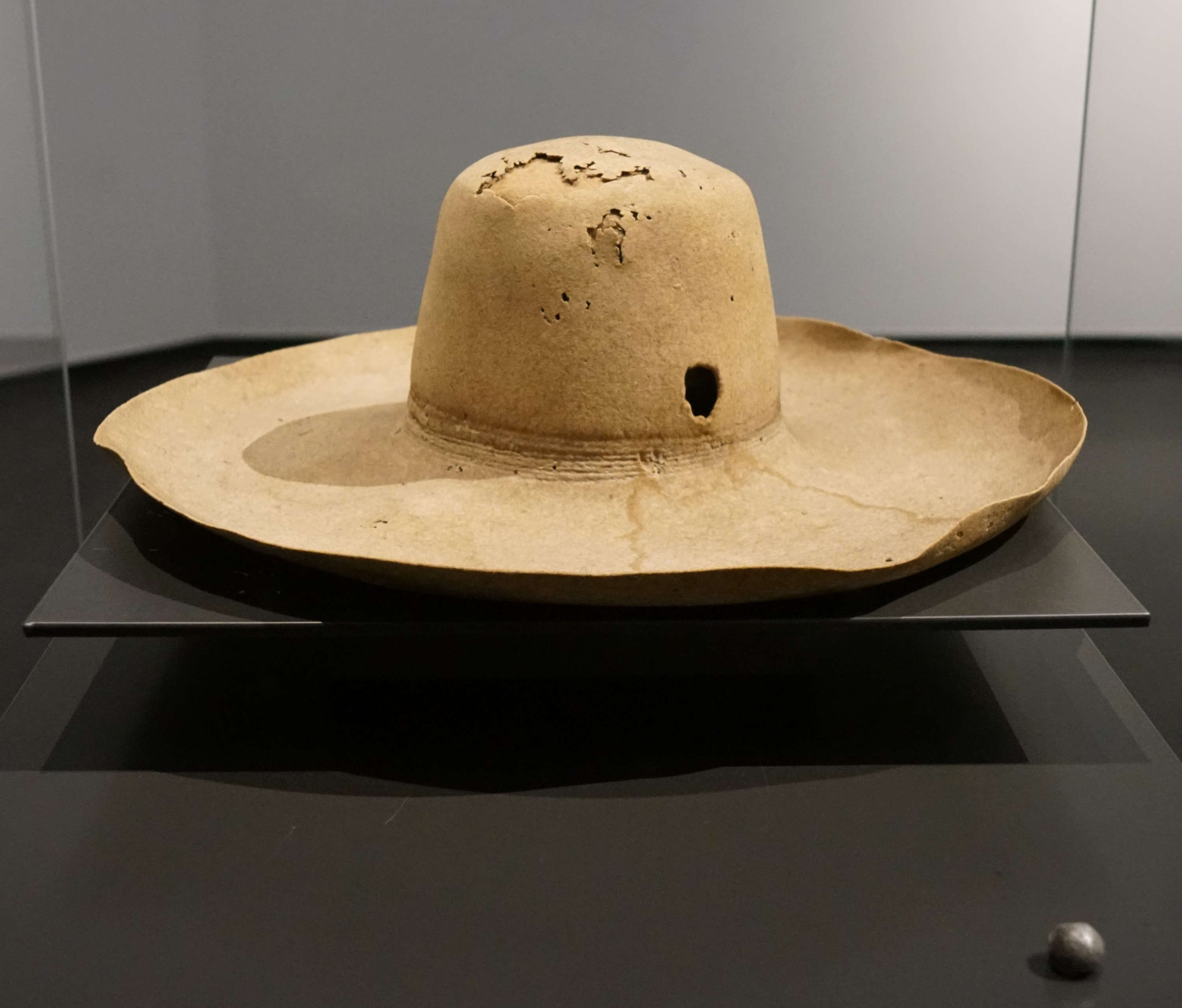 Felt hat of Ernst Casimir, count of Nassau-Dietz, which he wore when he was killed by a musket shot. On the foreground the musket ball which might have killed him. Picture taken during the exhibition "80 jaar oorlog" in the Rijksmuseum in Amsterdam, The Netherlands.